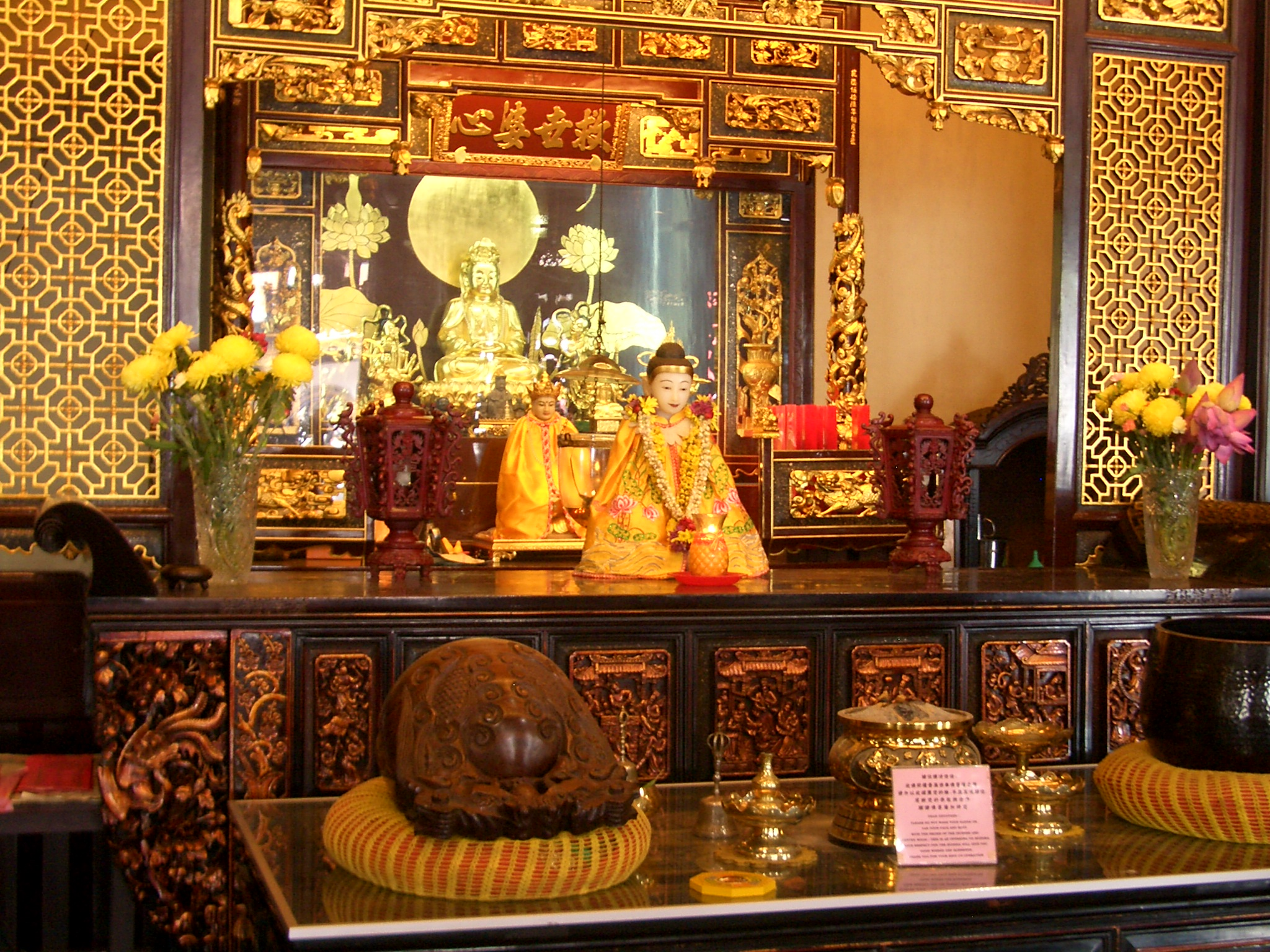 In and around Cheng Hoon Teng (Pinyin: Qing Yun Ting) Temple, a small Buddhist temple located at 25 Jalan Tokong (25 Tokong Ave) in Melaka's Chinatown (Baru Cina)